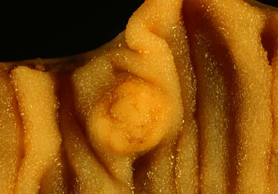 The photo shows the same case presented in Image:Multiple Carcinoid Tumors of the Small Bowel 1.jpg. The medium close-up photo above shows a segmental small bowel resection en face, the long axis of the bowel oriented horizontally in the frame. One of the carcinoids is present centrally. Note that the tumor effaces the mossy, villous surface of the mucosa only to a mild degree. The photos were taken with a Nikon FE2 and 50-something mm Nikkor macro lens with Elite ISO 100 daylight film and a blue color compensation filter. For the middle photo, I found that shading some of the illumination on one side helped to bring out the villous texture of the mucosa. Photograph by Ed Uthman, MD. Public domain. Posted 28 Oct 99